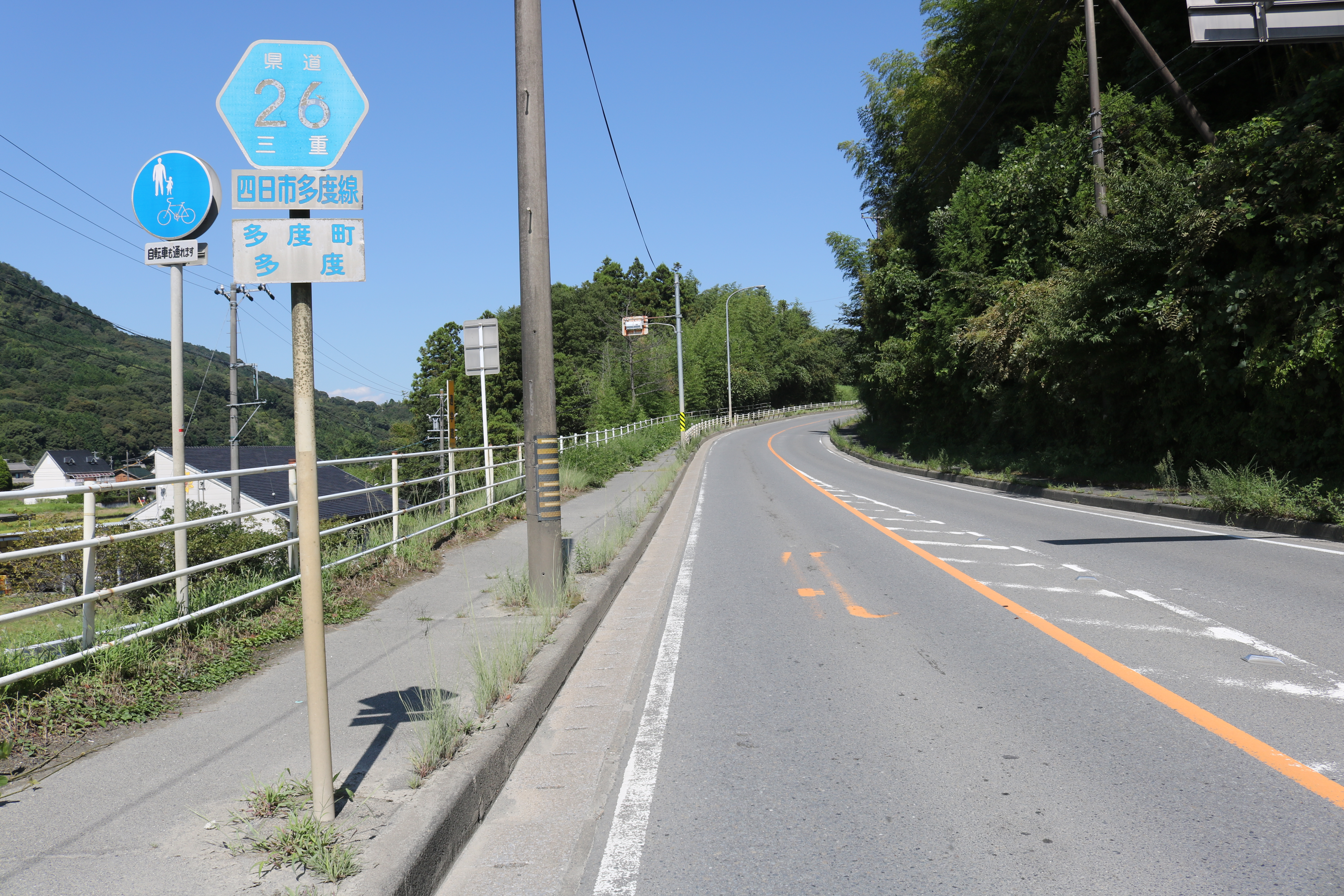 Mie Prefectural Road Route 26 in Tado-ｃｈō, Tado, Kuwana, Mie prefecture, Japan.